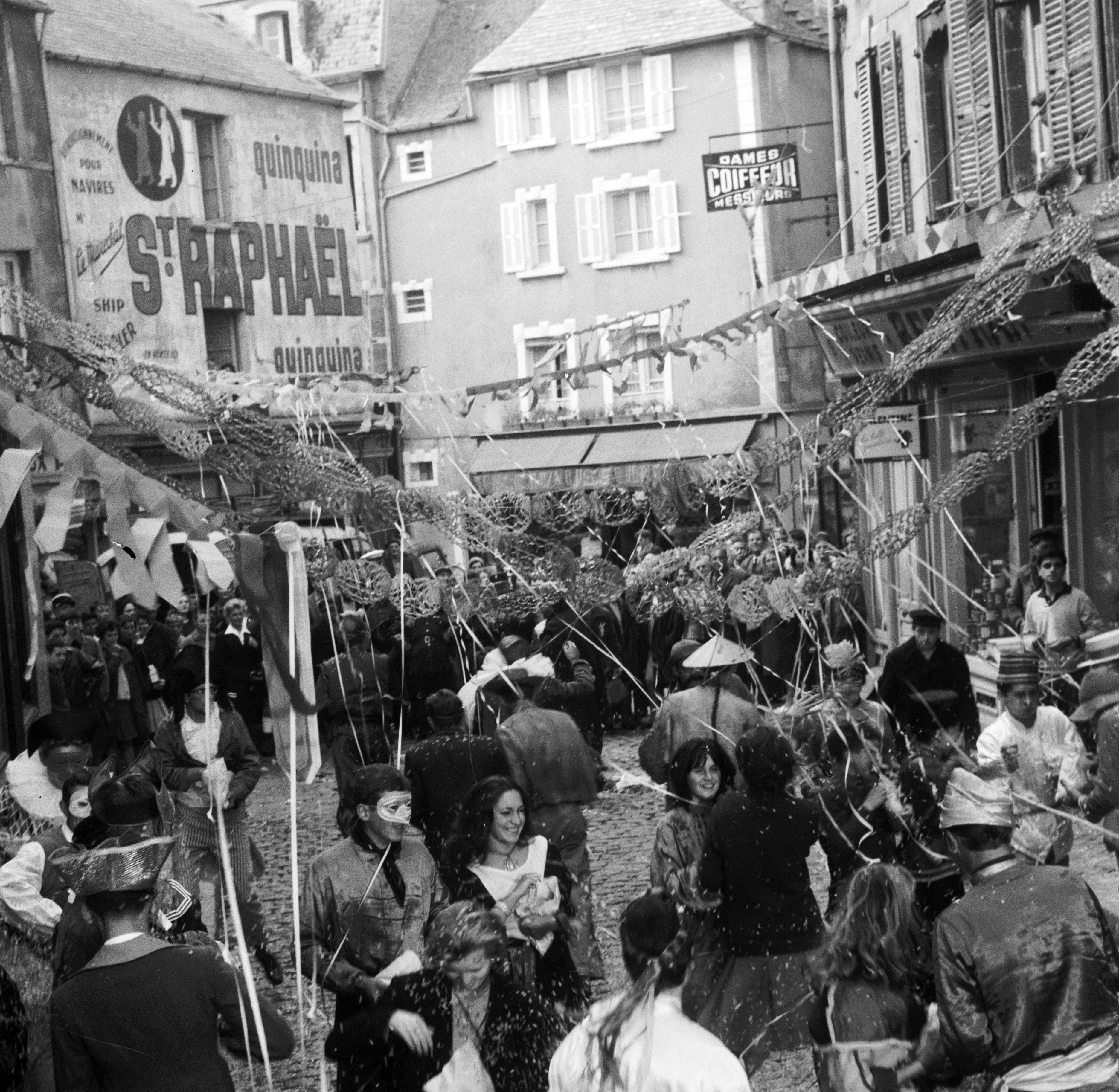 The Umbrellas of Cherbourg. Film directed by Jacques Demy.